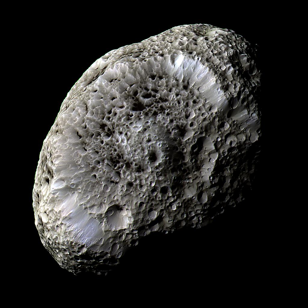 original description: This stunning false-color view of Saturn's moon Hyperion reveals crisp details across the strange, tumbling moon's surface. Differences in color could represent differences in the composition of surface materials. The view was obtained during Cassini's close flyby on Sept. 26, 2005. Hyperion has a notably reddish tint when viewed in natural color. The red color was toned down in this false-color view, and the other hues were enhanced, in order to make more subtle color variations across Hyperion's surface more apparent. Images taken using infrared, green and ultraviolet spectral filters were combined to create this view. The images were taken with the Cassini spacecraft's narrow-angle camera at a distance of approximately 62,000 kilometers (38,500 miles) from Hyperion and at a Sun-Hyperion-spacecraft, or phase, angle of 52 degrees. The image scale is 362 meters (1,200 feet) per pixel. The Cassini-Huygens mission is a cooperative project of NASA, the European Space Agency and the Italian Space Agency. The Jet Propulsion Laboratory, a division of the California Institute of Technology in Pasadena, manages the mission for NASA's Science Mission Directorate, Washington, D.C. The Cassini orbiter and its two onboard cameras were designed, developed and assembled at JPL. The imaging operations center is based at the Space Science Institute in Boulder, Colo.